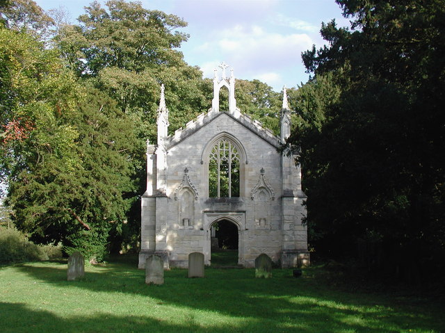 West front of the former parish church of St Andrew, Bishopthorpe, North Yorkshire, seen from the west